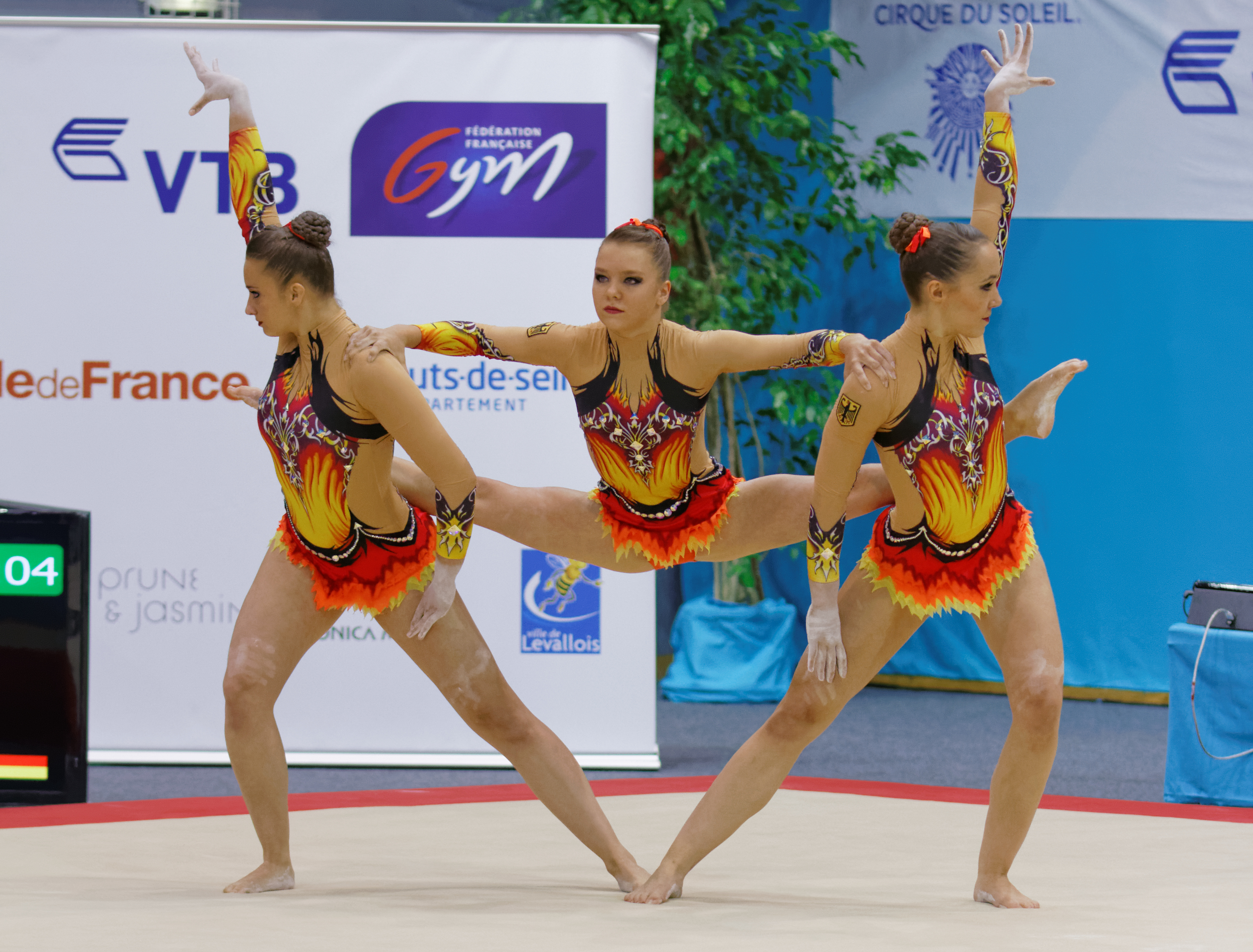 2014 Acrobatic Gymnastics World Championships, 10th-12 July, Levallois-Perret, France. Qualifications: women's group. Germany.